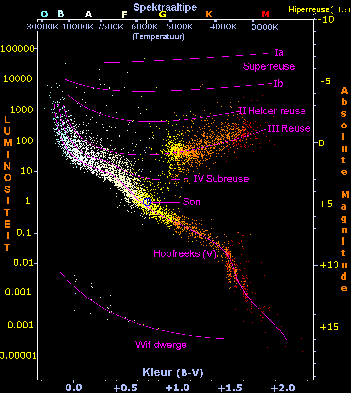 Hertzsprung-Russell diagram. A plot of luminosity (absolute magnitude) against the colour of the stars ranging from the high-temperature blue-white stars on the left side of the diagram to the low temperature red stars on the right side. Converted to png and compressed with pngcrush.